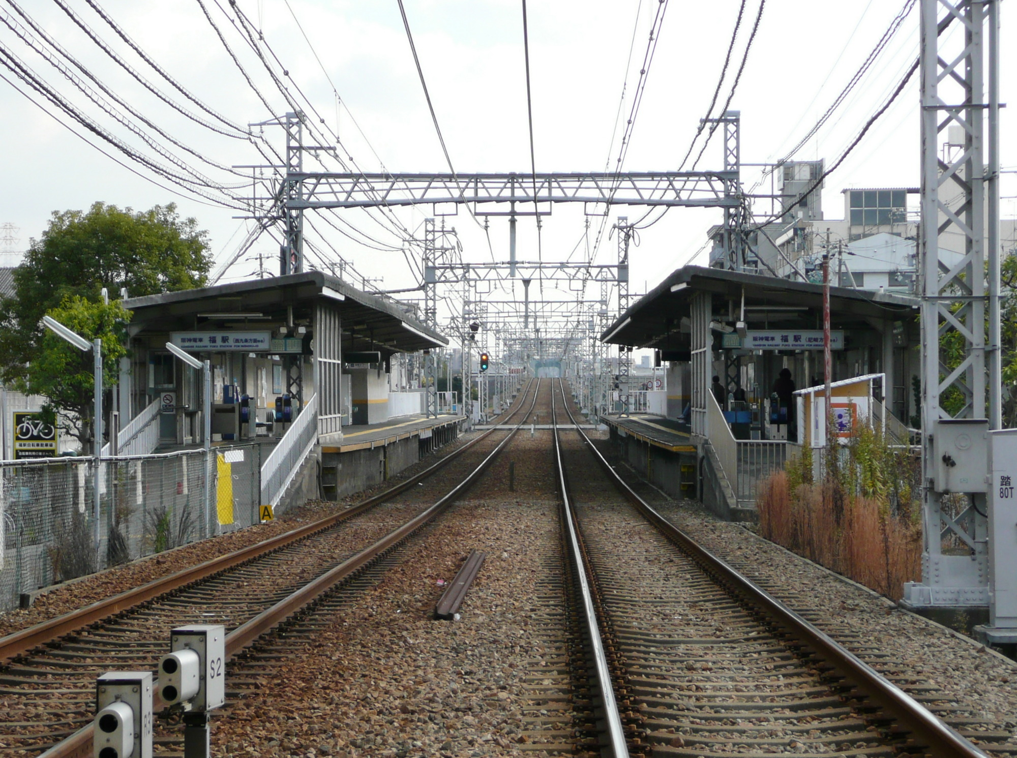 Hanshin Electric Railway,Nishi-Osaka Line,Fuku Station. /阪神西大阪線福駅（北側の踏切から撮影）